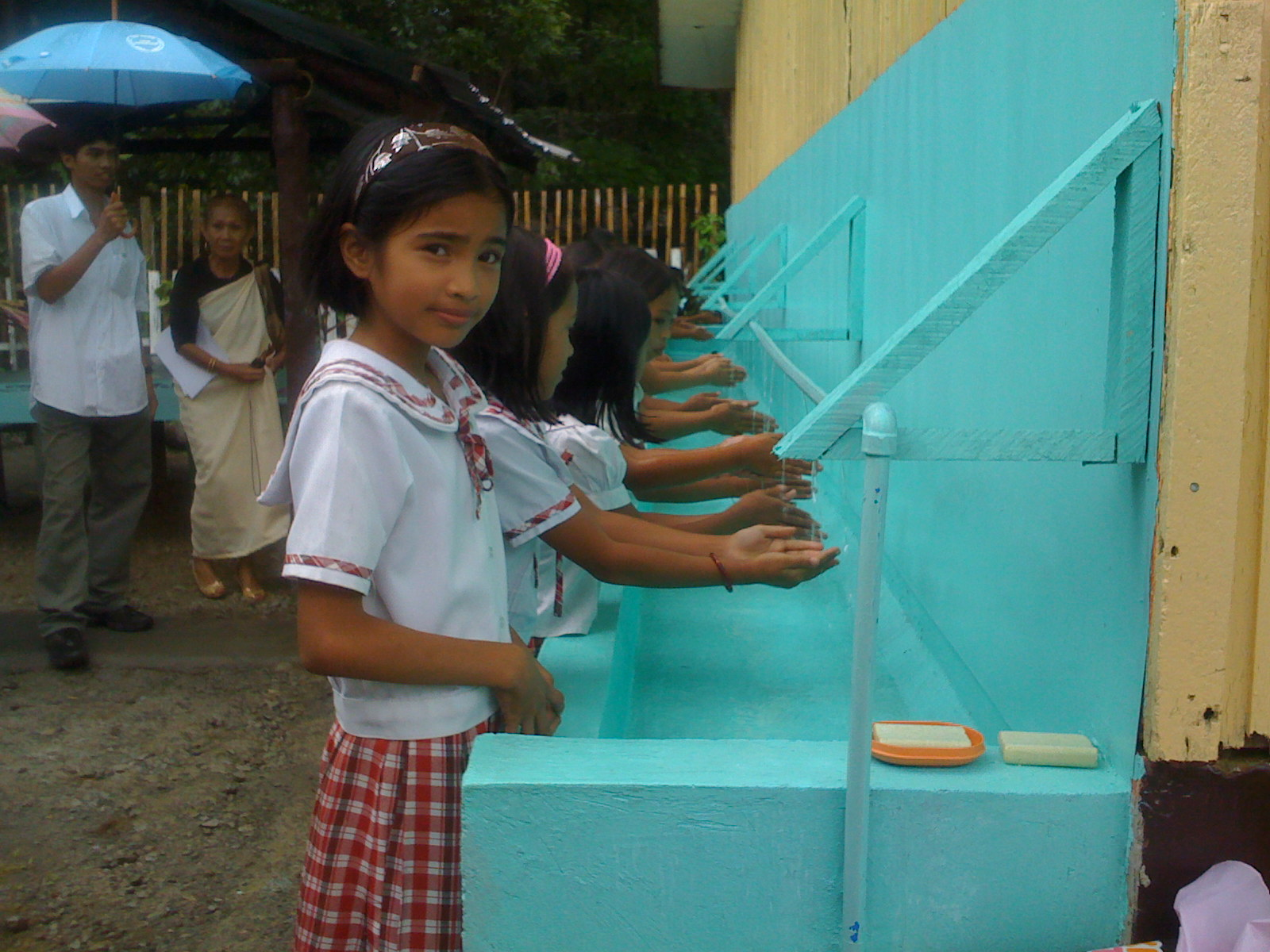 picture taken during Global Handwashing Day 2008 activities and the simultaneous launching of the Essential Health Care Package (EHCP) for Philipino Children (includes handwashing, tooth brushing and twice a year deworming). photo provided by Robert Gensch